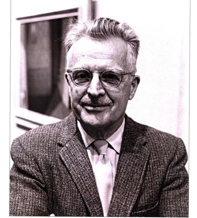 A photo of Marvin Cone in a gallery in 1961. Photo taken by George T. Henry